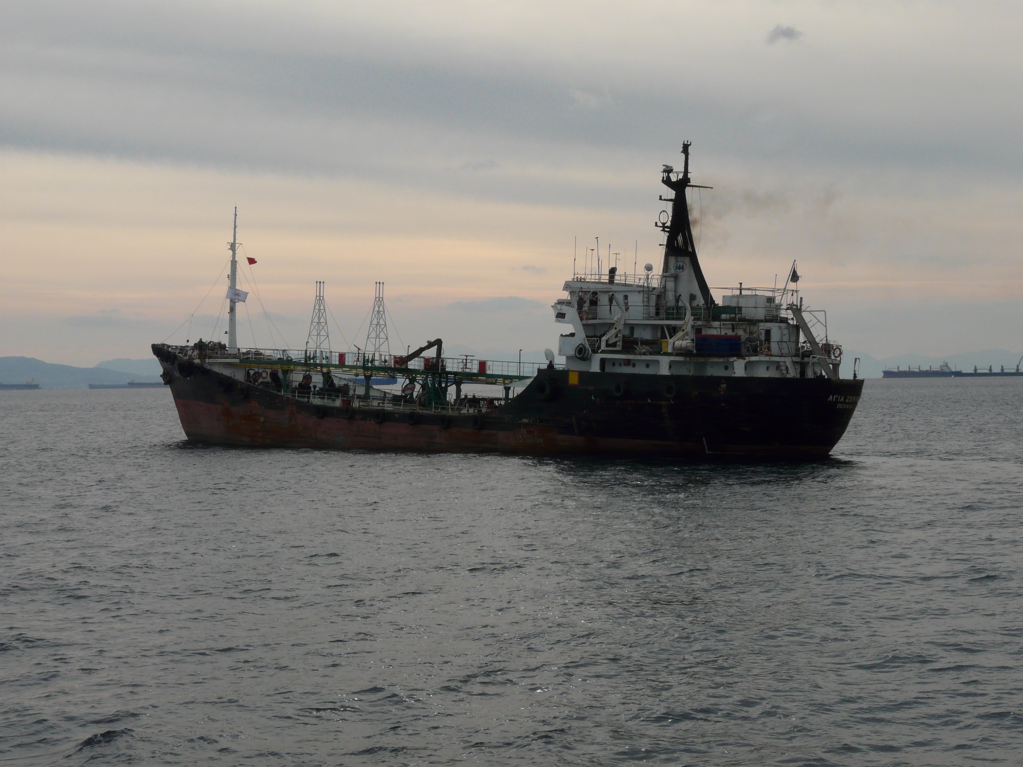 Greek bunker vessel "Agia Zoni III" at Piraeus road (Port of registry Piraeus) has funnel-mast. Photo dated 27 Jan 2007.